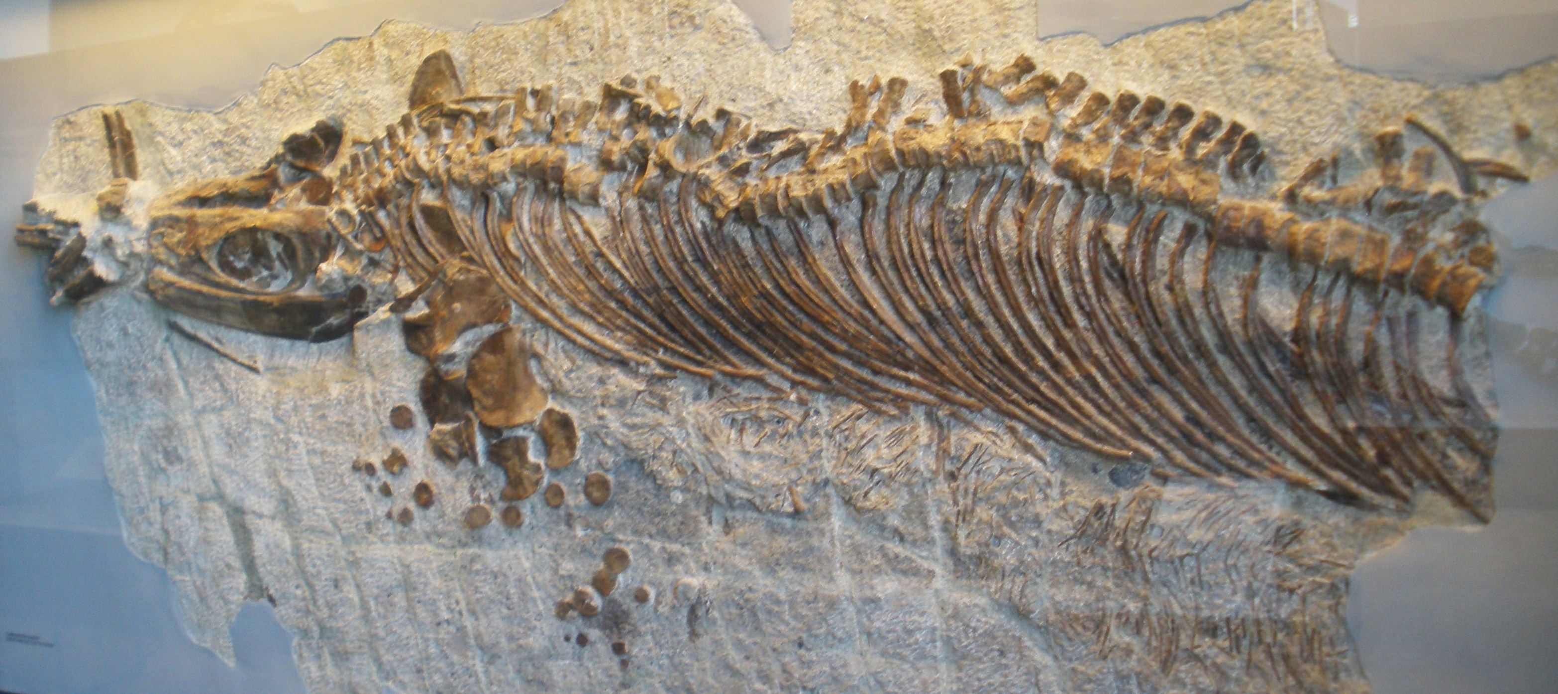 fossil Cymbospondylus